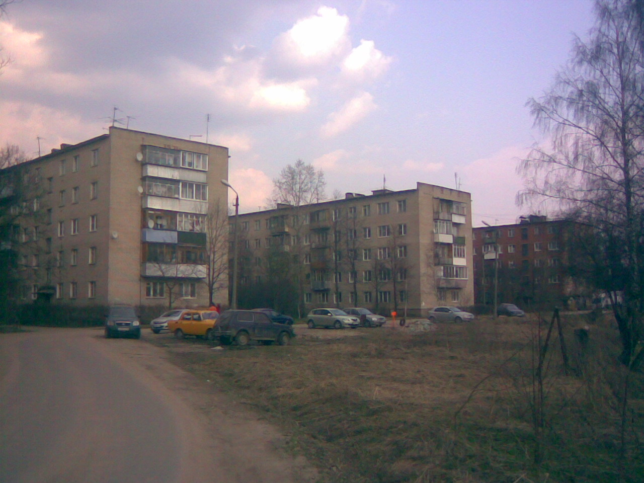 Snegiri (Moscow Oblast)